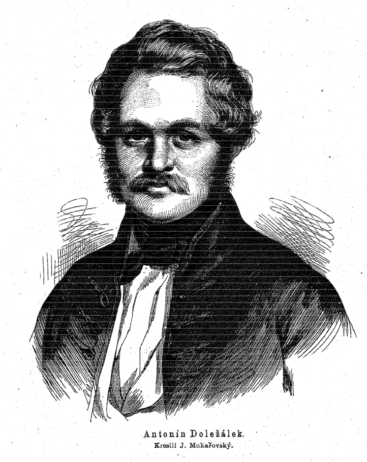 Antonín Doležálek (1799-1849), Czech special educator, director of institutions for the blind.